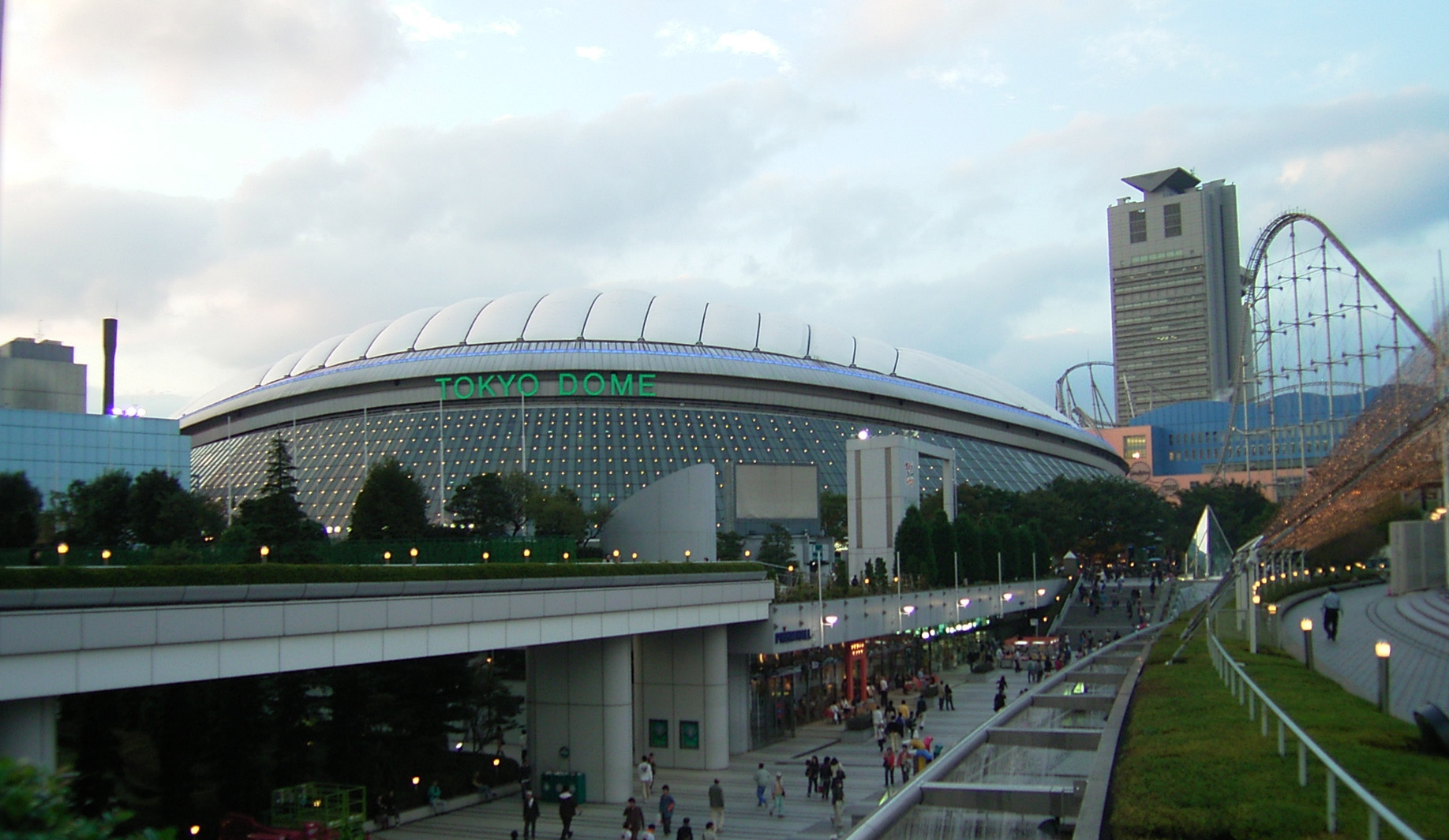 Tokyo Dome Central Baseball “Climax series 2007”The second stage